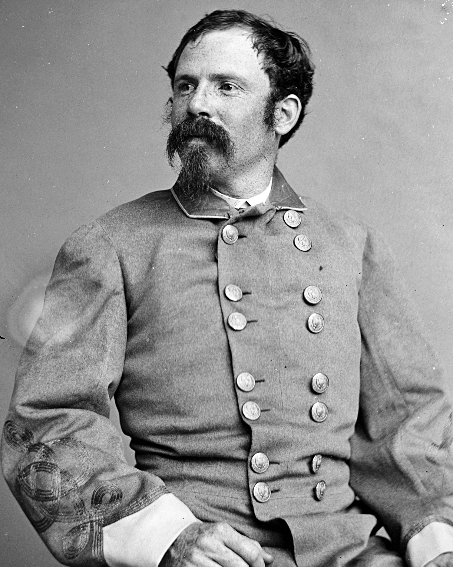 Thomas P. Ochiltree, US Representative from Texas, Library of Congress, Civil War glass negative collection